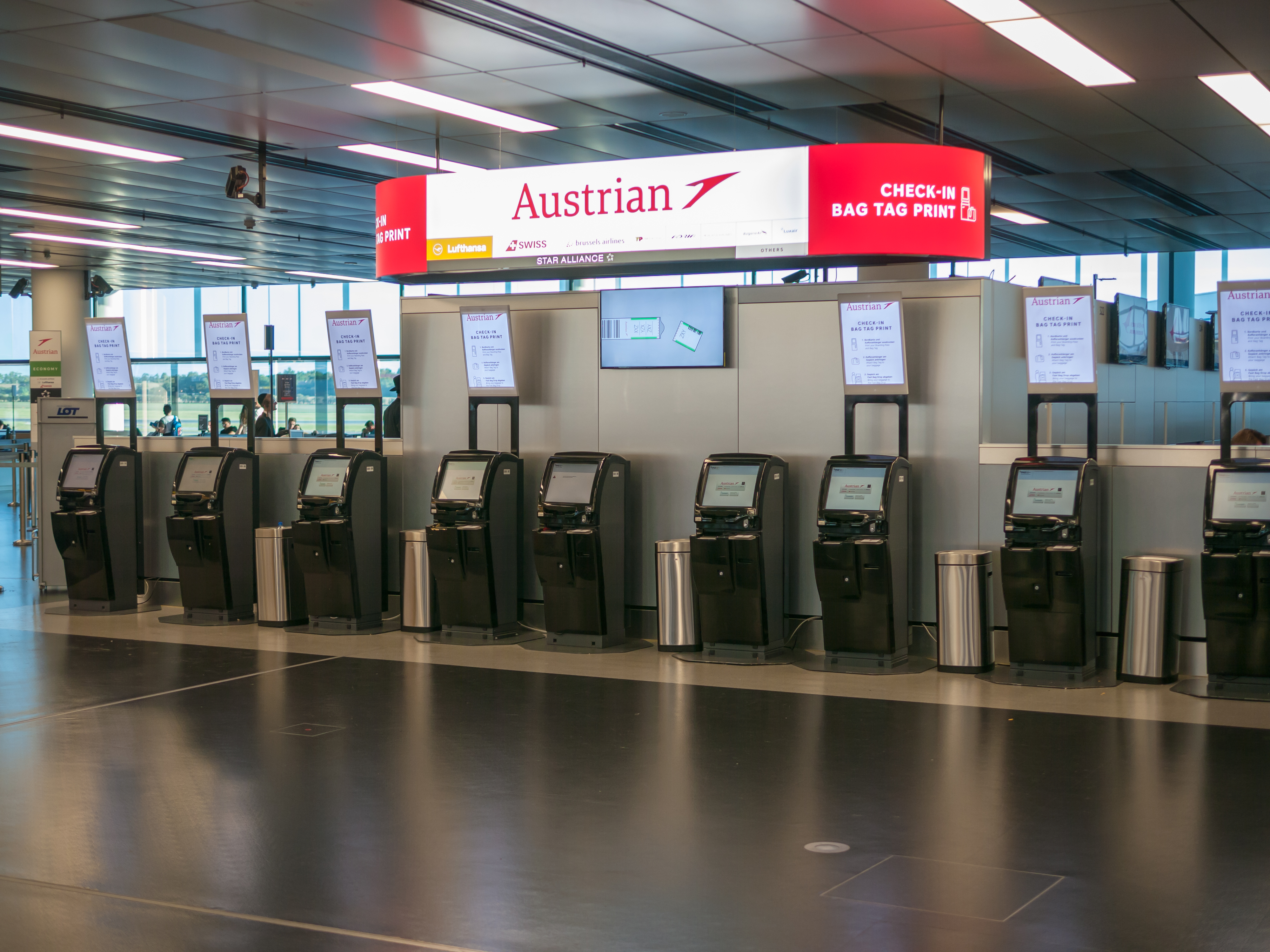 Vienna International Airport